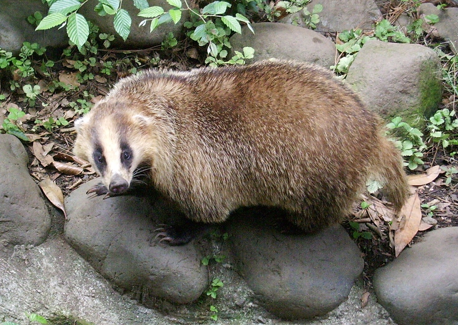 Japanese badger at Inokashira Park Zoo (Main park), Tokyo, on Sat 20 Jun 2009.